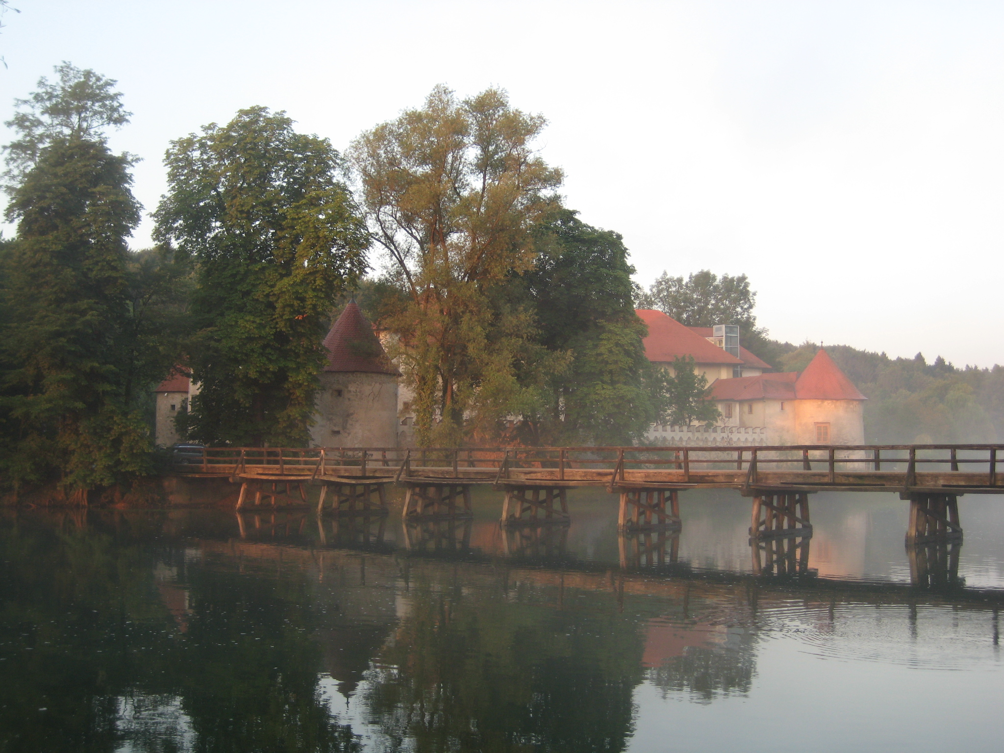 Hotel Grad otočec, near Novo mesto, Slovenia.